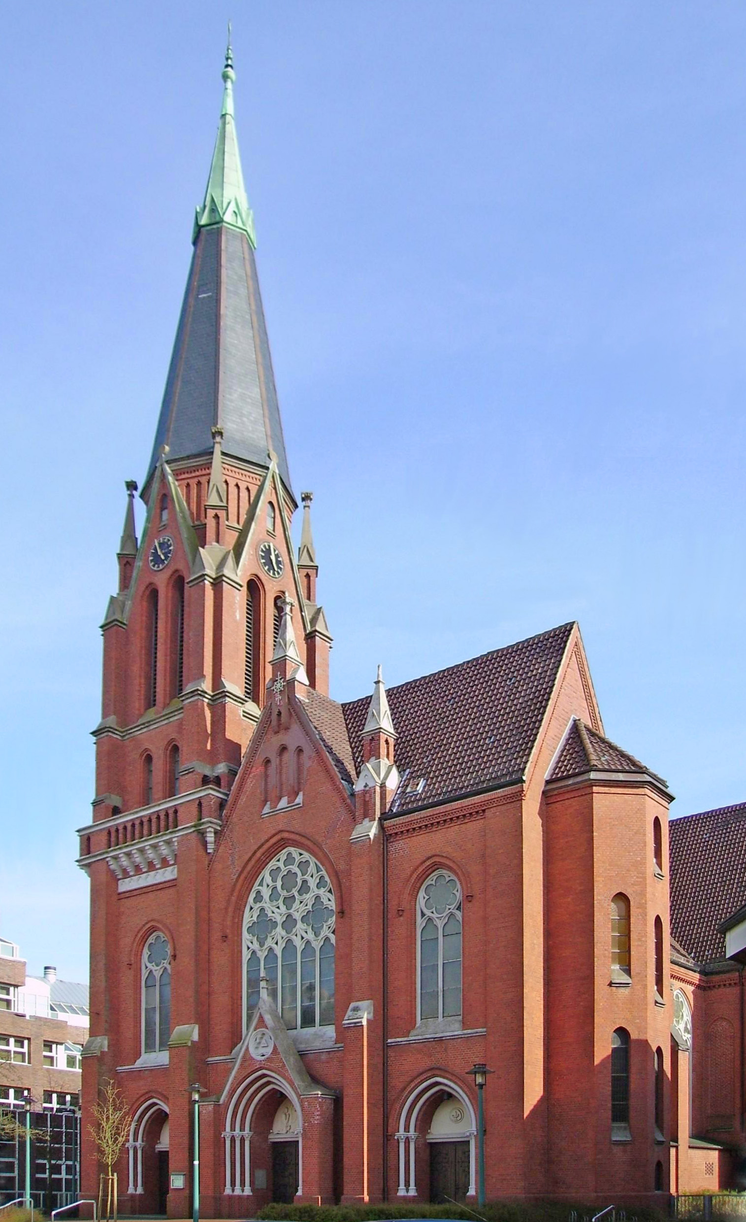 The Catholic Sacred Heart of Jesus Church in Bremerhaven-Geestemünde